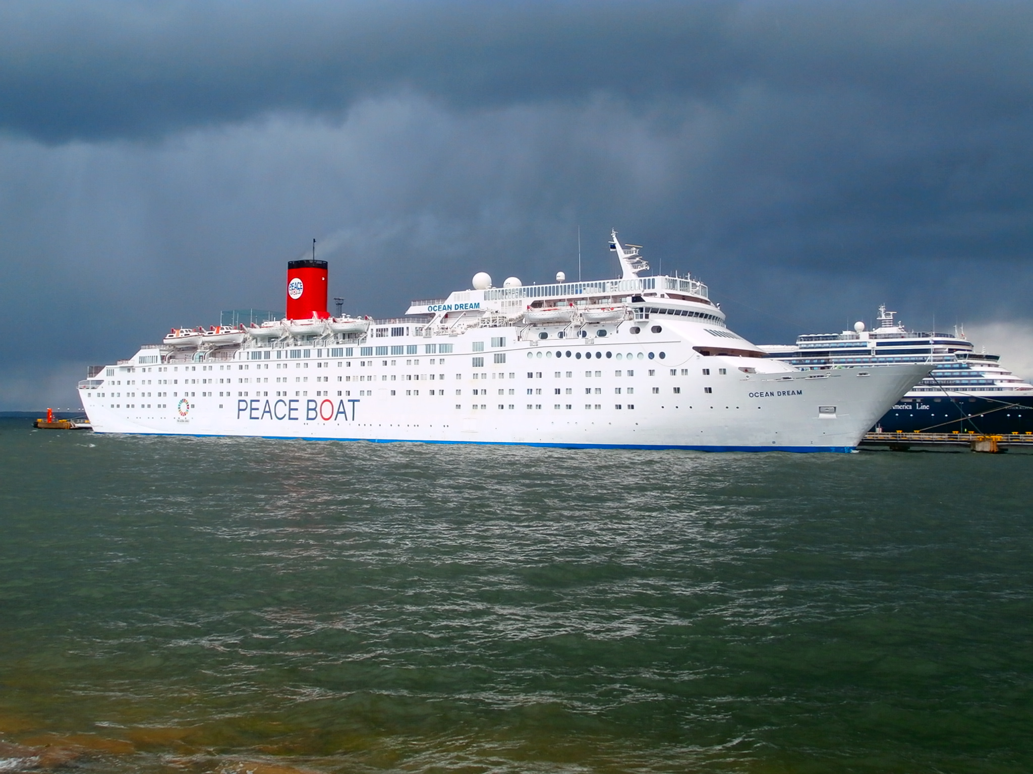 Ocean Dream at pier 24 in Port of Tallinn 1 June 2017 (Zuiderdam at pier 27 in the background)